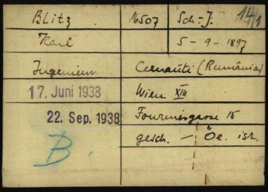 Registry card of Charles K. Bliss as a prisoner at Dachau Nazi Concentration Camp "J" (top right corner) and "isr." (bottom right) identify Bliss as a Jew.